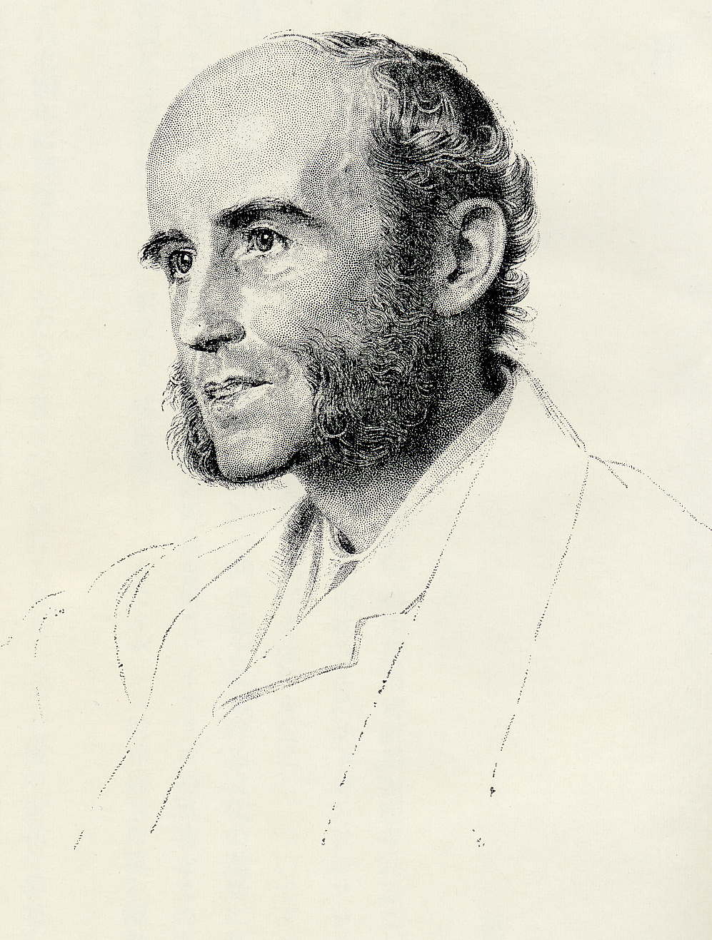 John Richard Green was a historian in the United Kingdom and he passed away in 1883. The main literary work of him is "A short history of English people,1874".